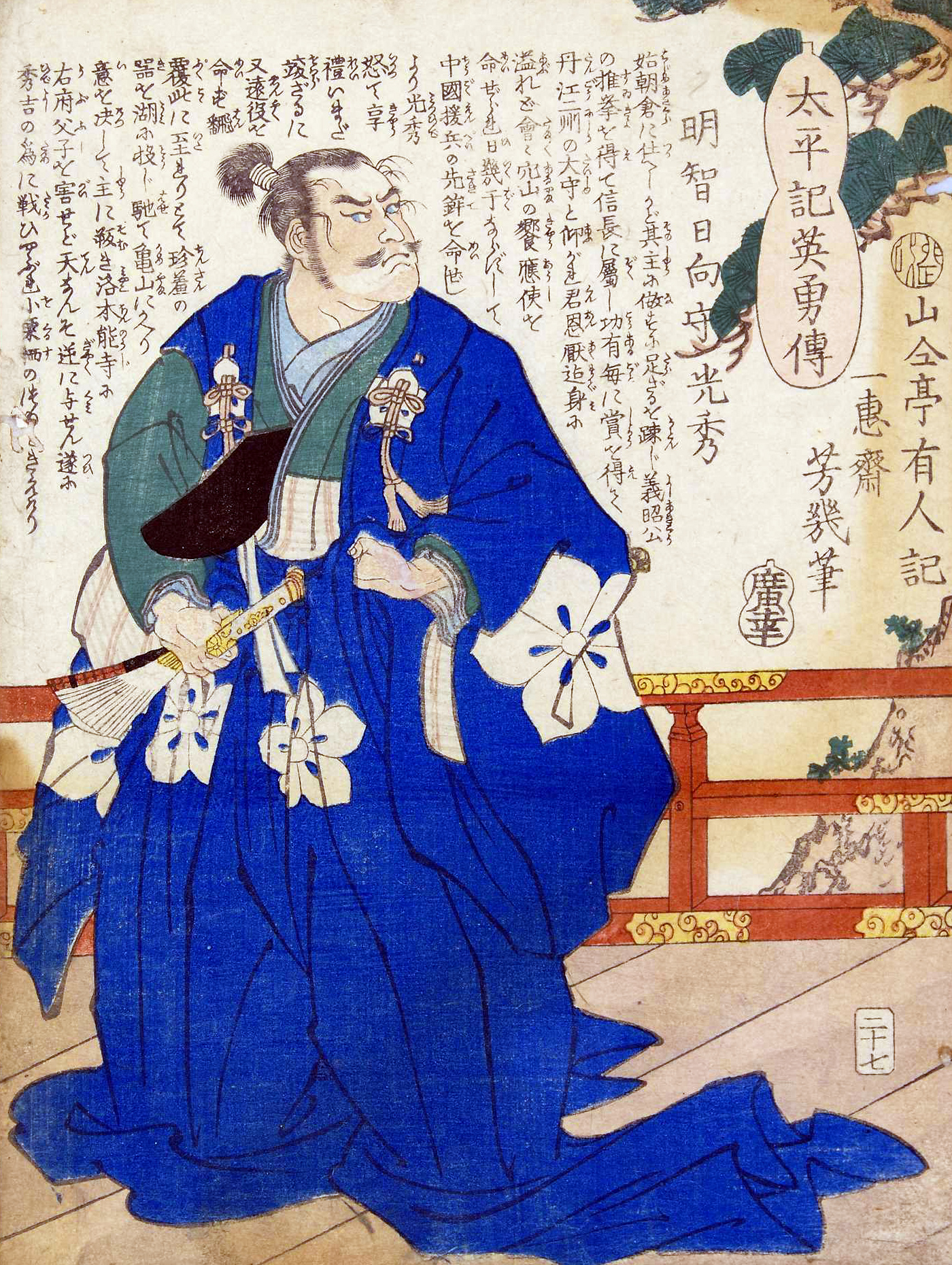 Ukiyo-e of samurai and general Akechi Mitsuhide (March 10, 1528 - July 2, 1582).